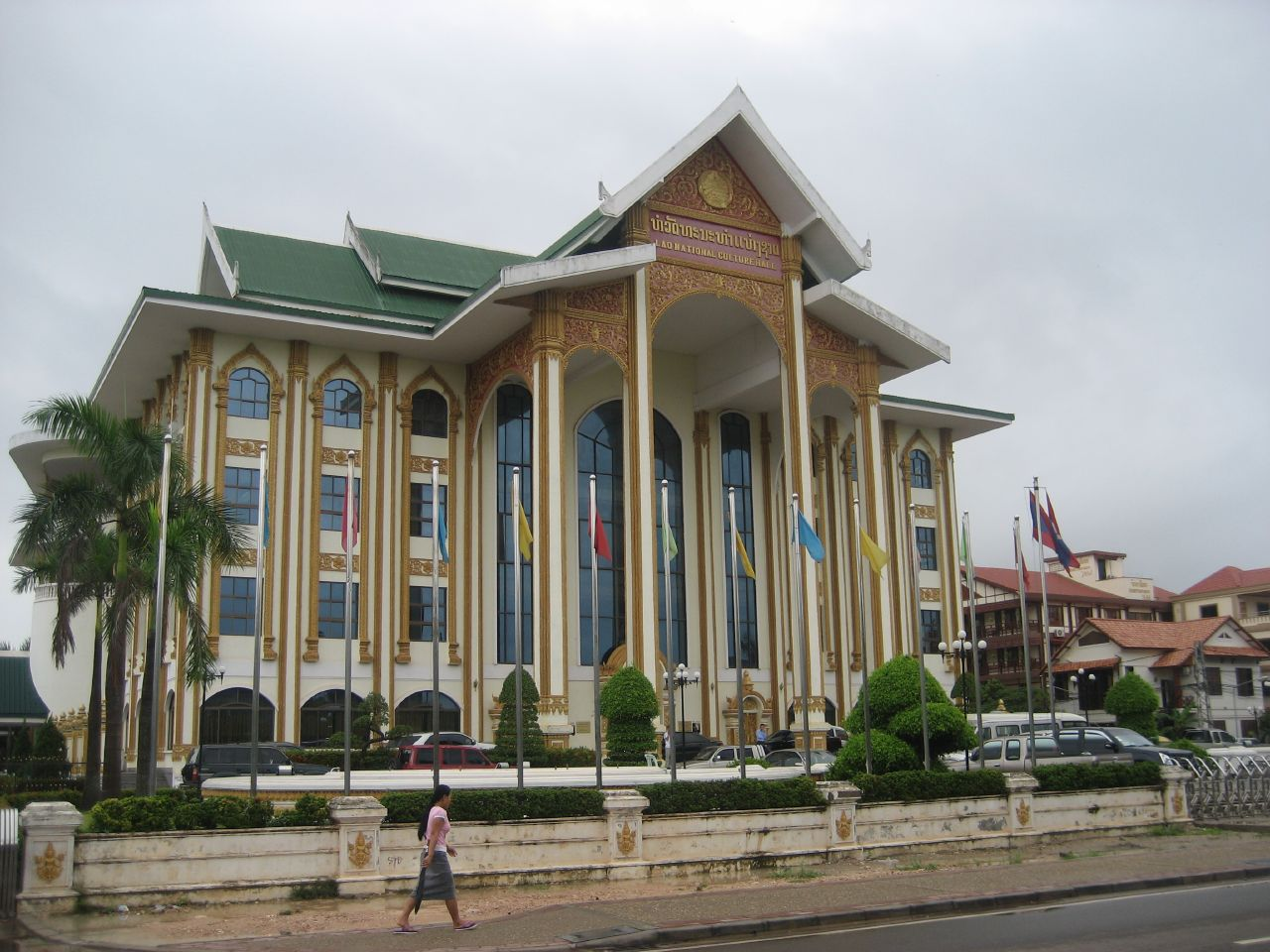 Lao National Culture Hall